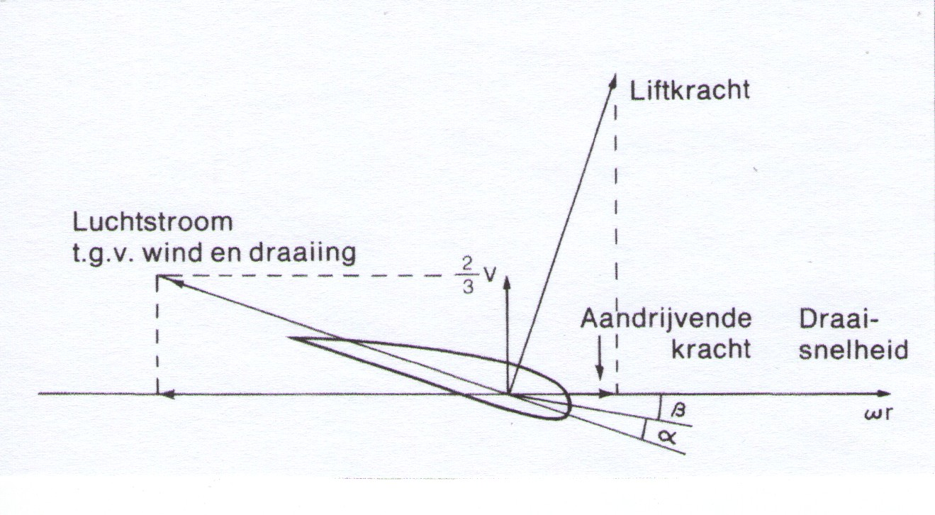 Windturbine airfoil liftforce